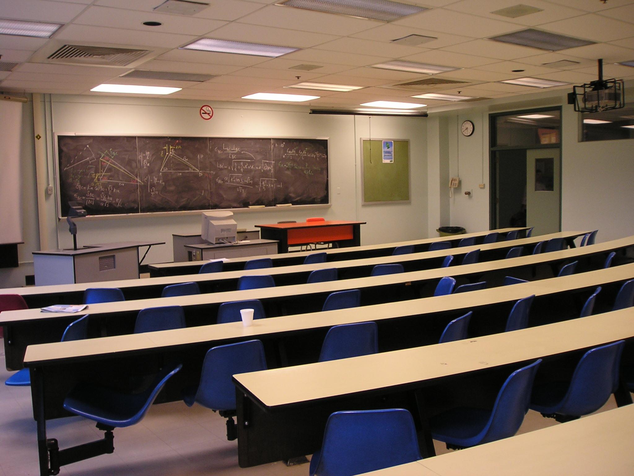 Third Floor Classroom at Ecole Polytechnique de Montreal